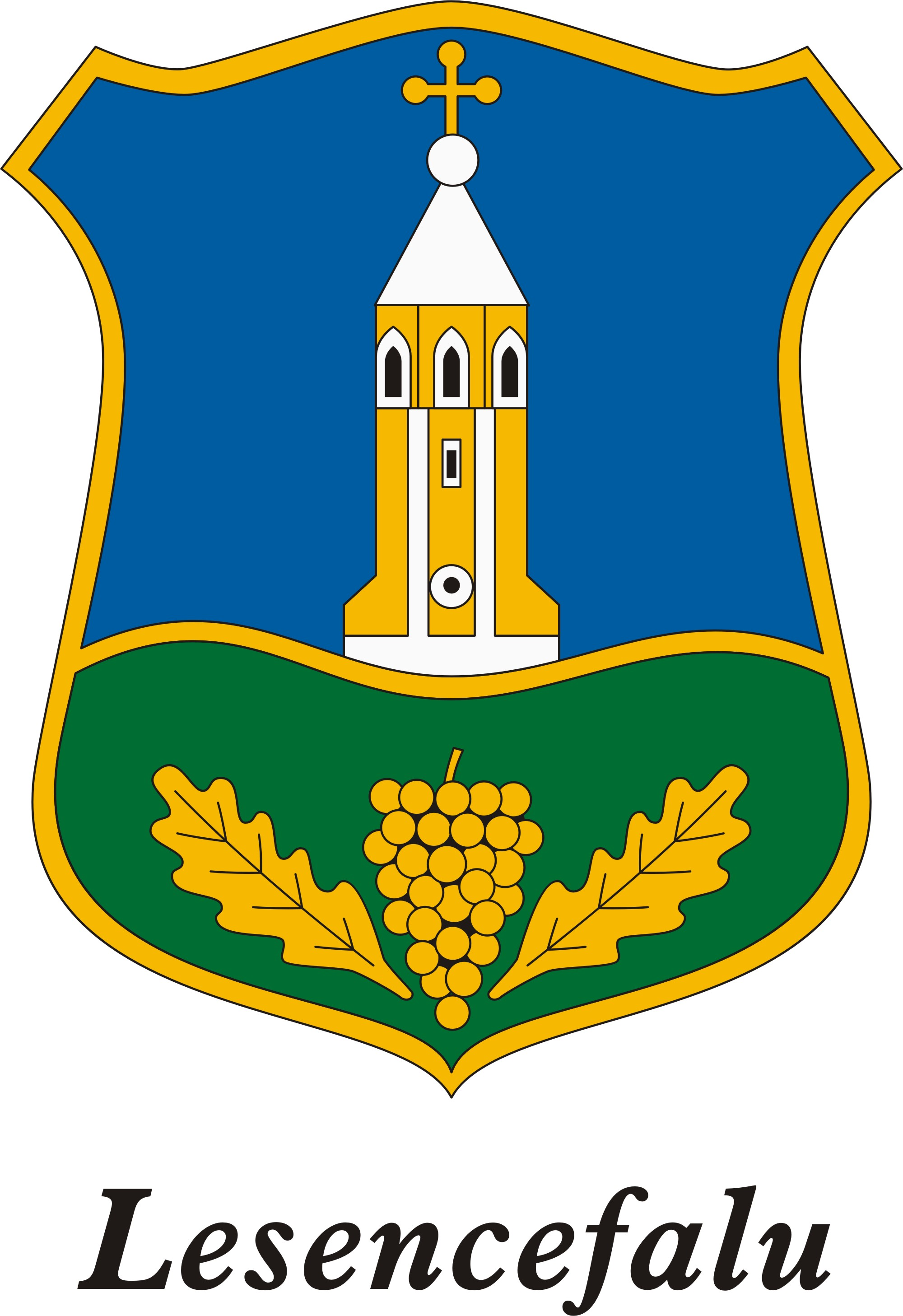 Coat of arms of Lesencefalu, Hungary